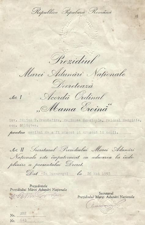 Brevet of the Order "Heroe Mother", RPR